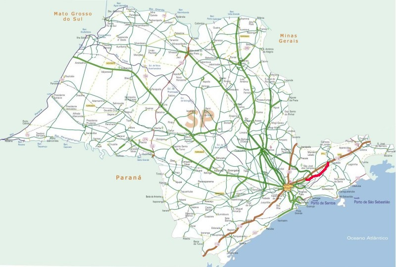 Map of Rodovia Carvalho Pinto, a highway in the state of São Paulo, Brazil, drawn on a public domain map by the Ministry of Transportation, Brazil.